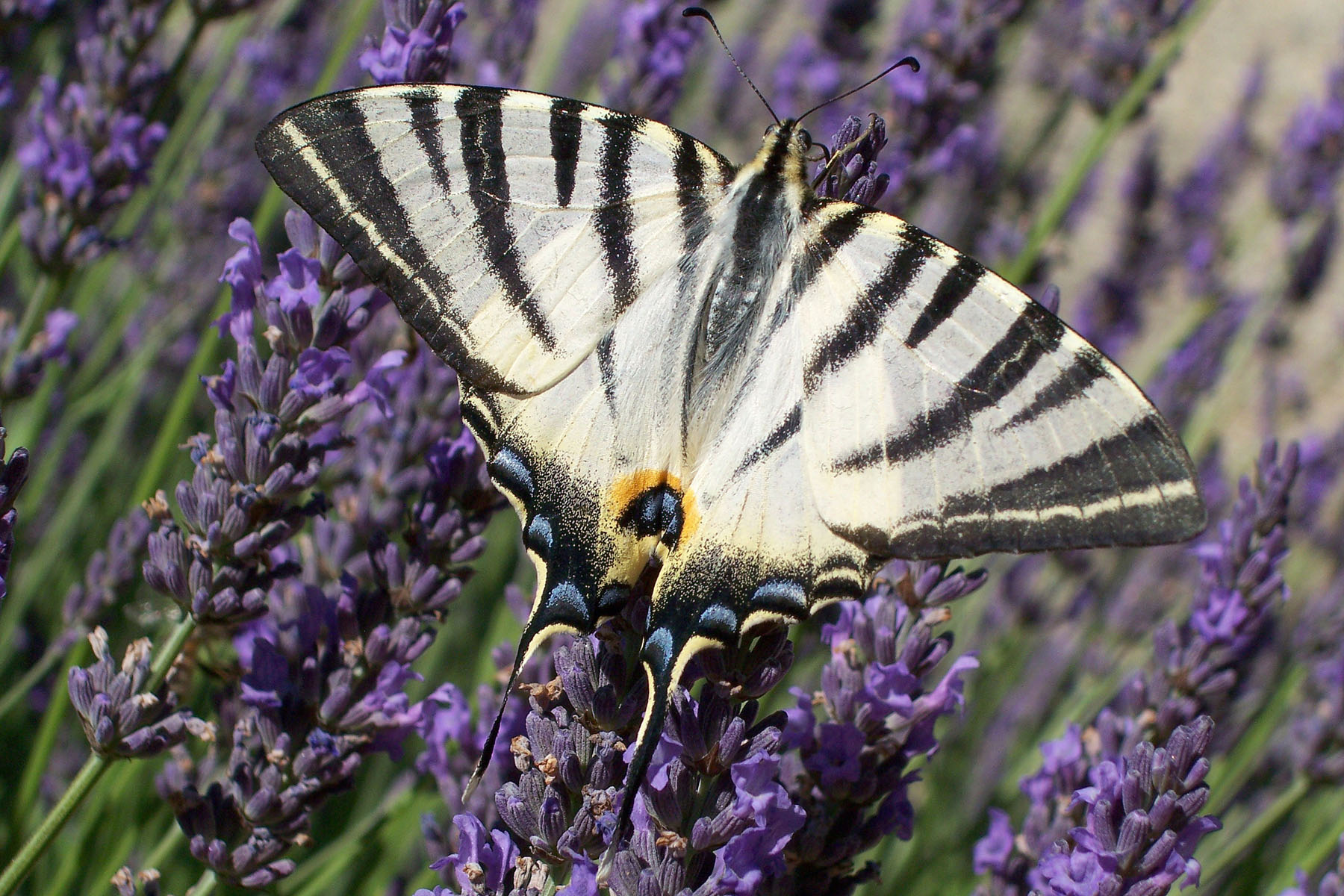 Iphiclides podalirius on Lavendula